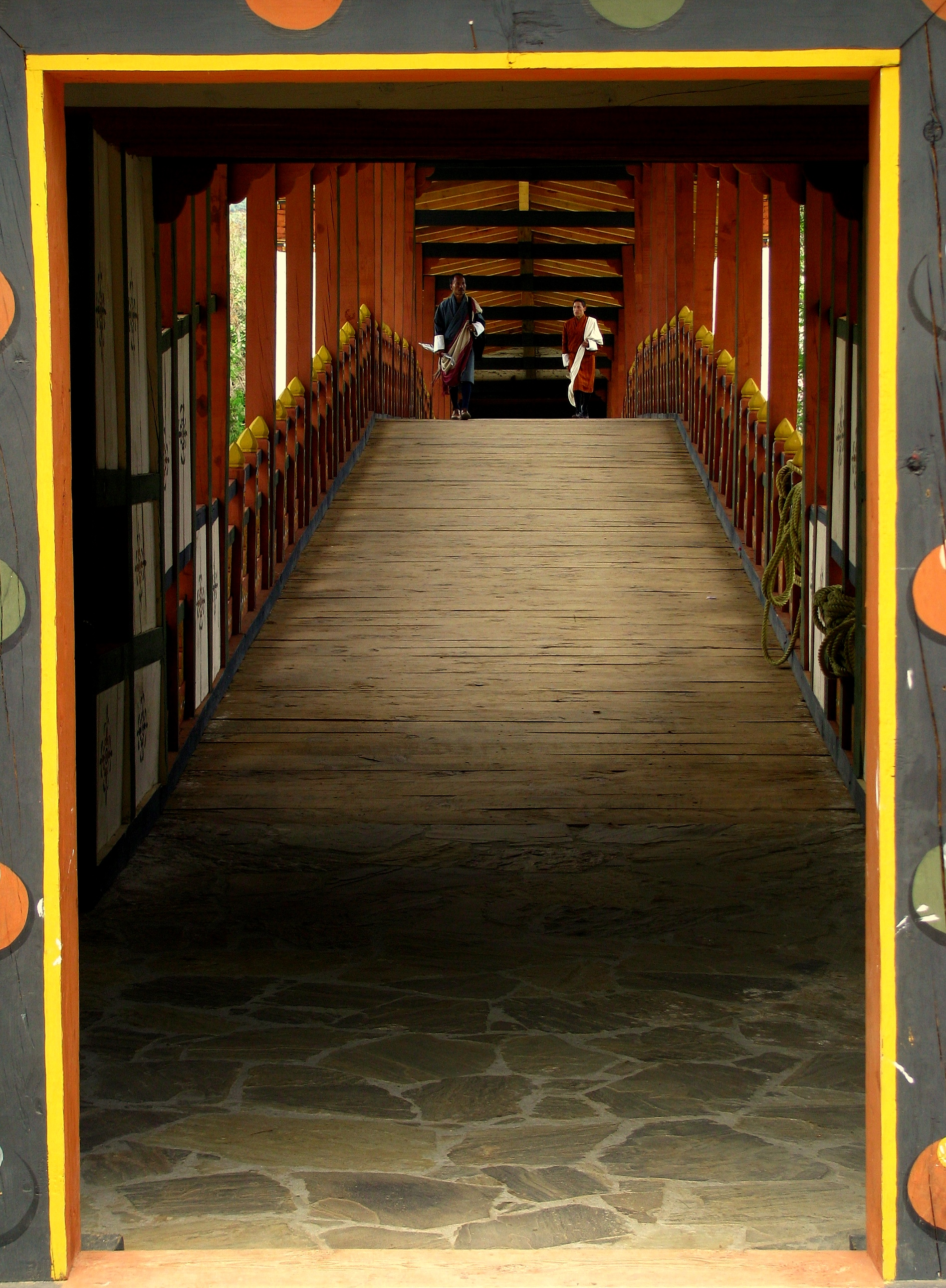 Punakha Dzong, Bhutan